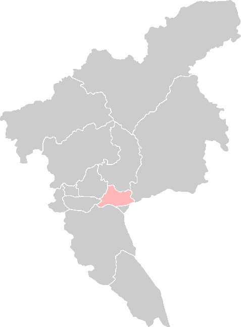 A Blank Map of Guangzhou Map